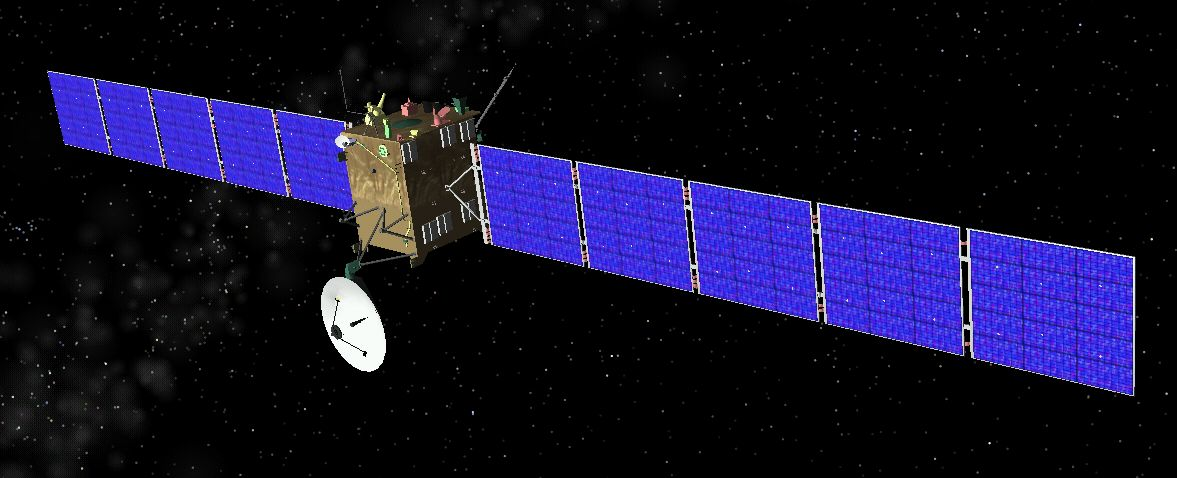 A 3D model of the Rosetta Spacecraft. This is not a true representation of Rosetta as the actual spacecraft is protected by black multi layer insulation blankets, the High Gain is also black. Also the individual scientific payloads are highlighted in different colours on this model. The image was created using Celestia.